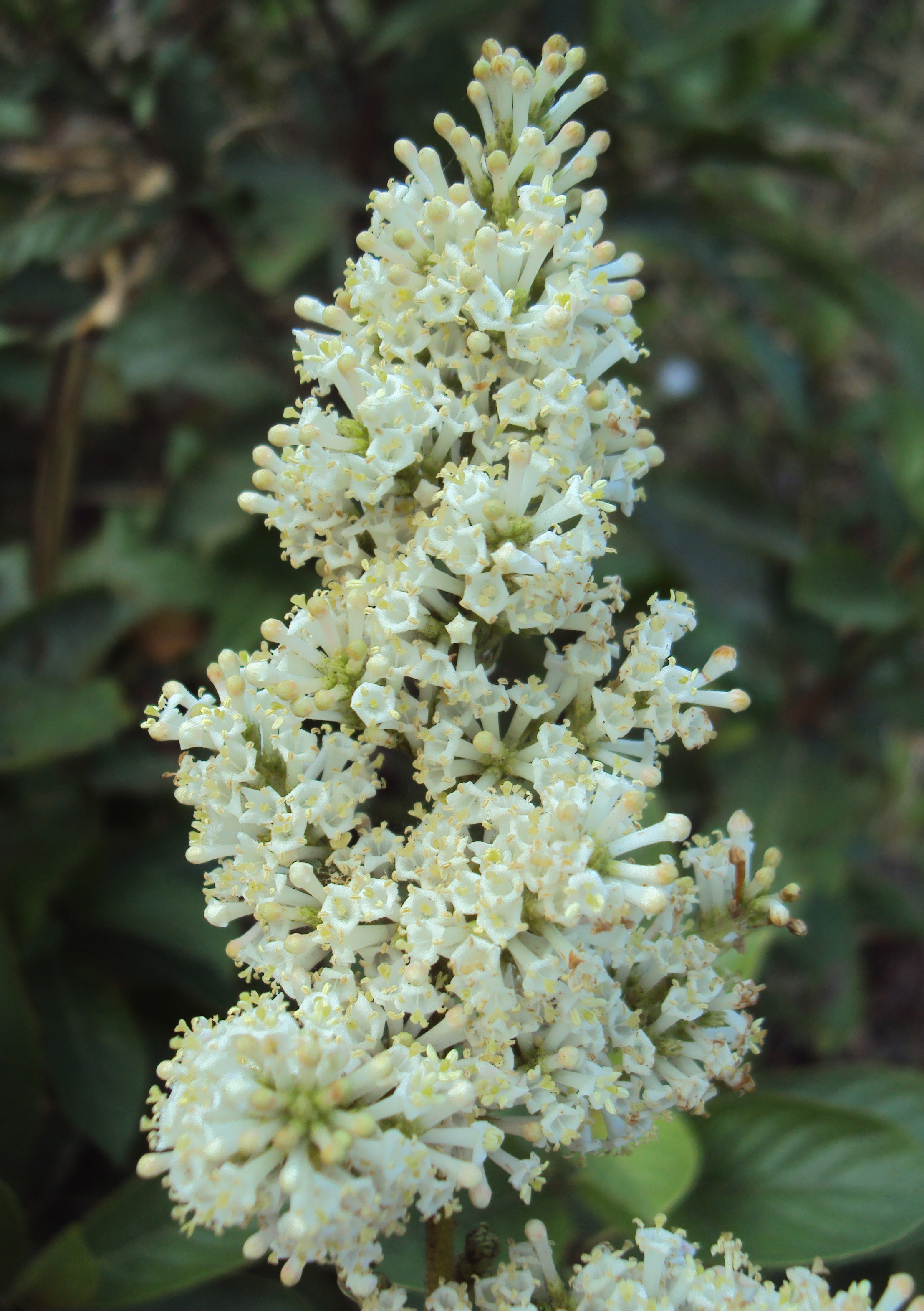 Wendlandia thyrsoidea